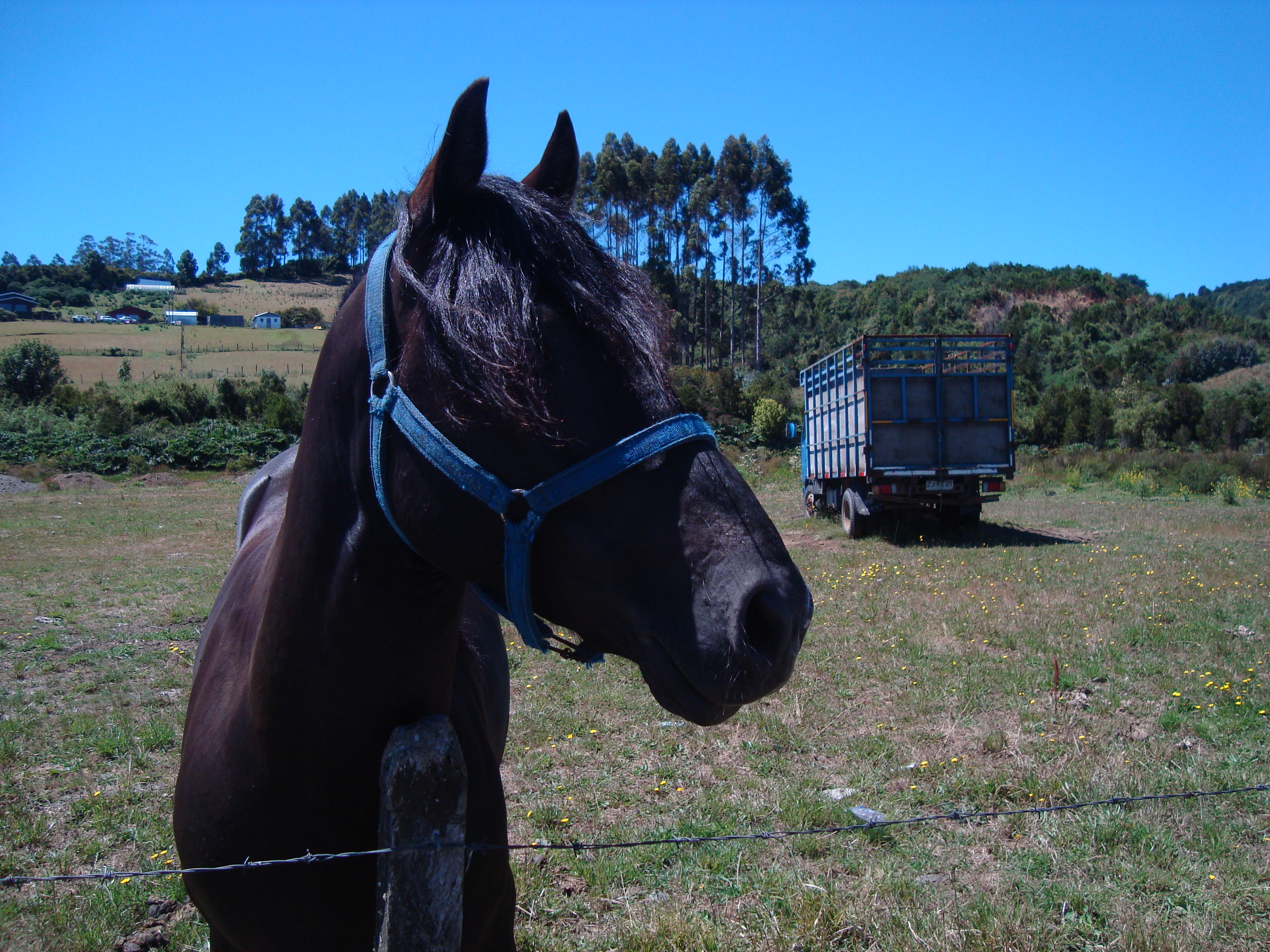 horses are very popular in Achao